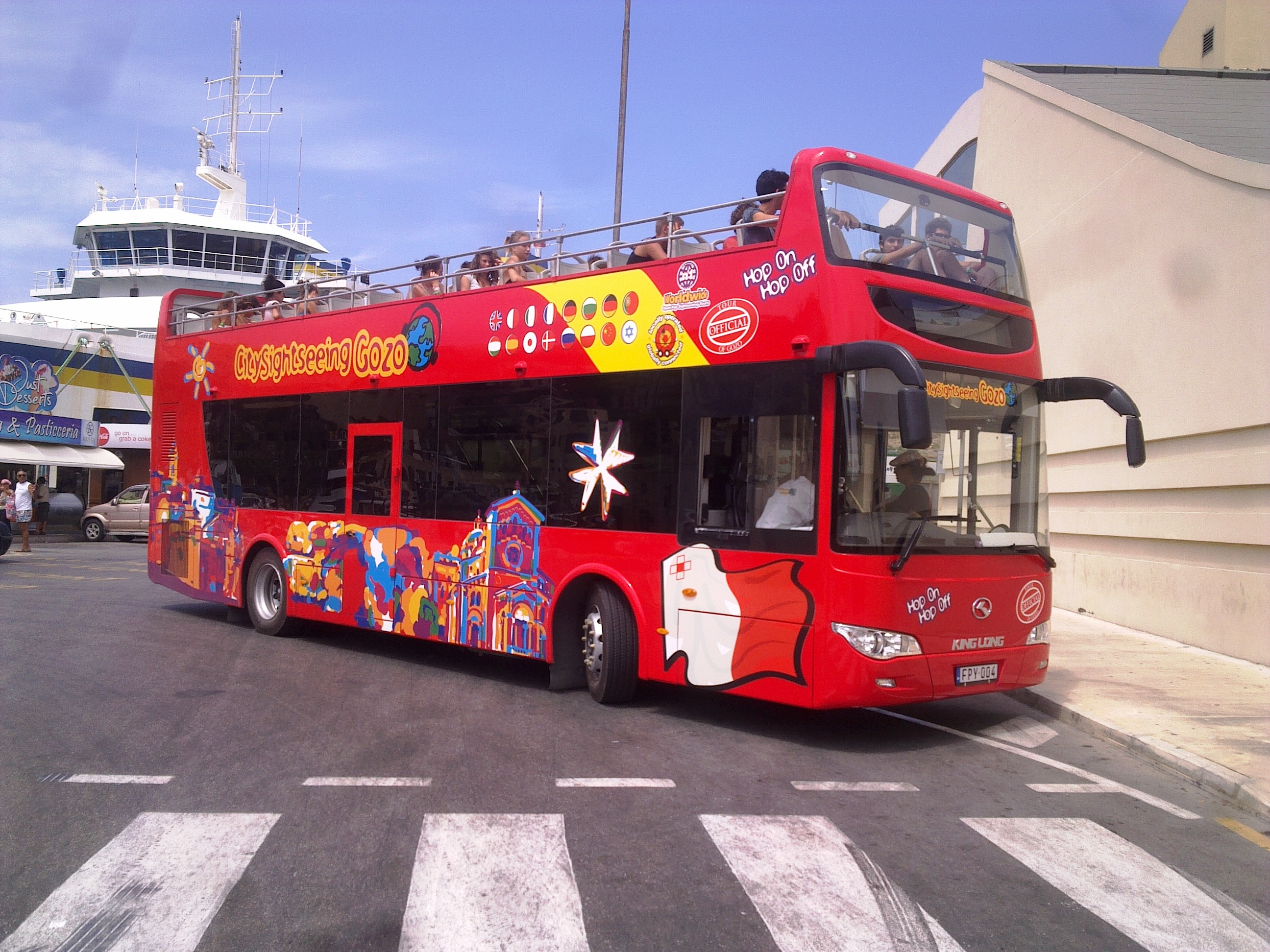 City Sightseeing Gozo Hop-On Hop-Off open top bus FPY 004 at Mgarr Harbour